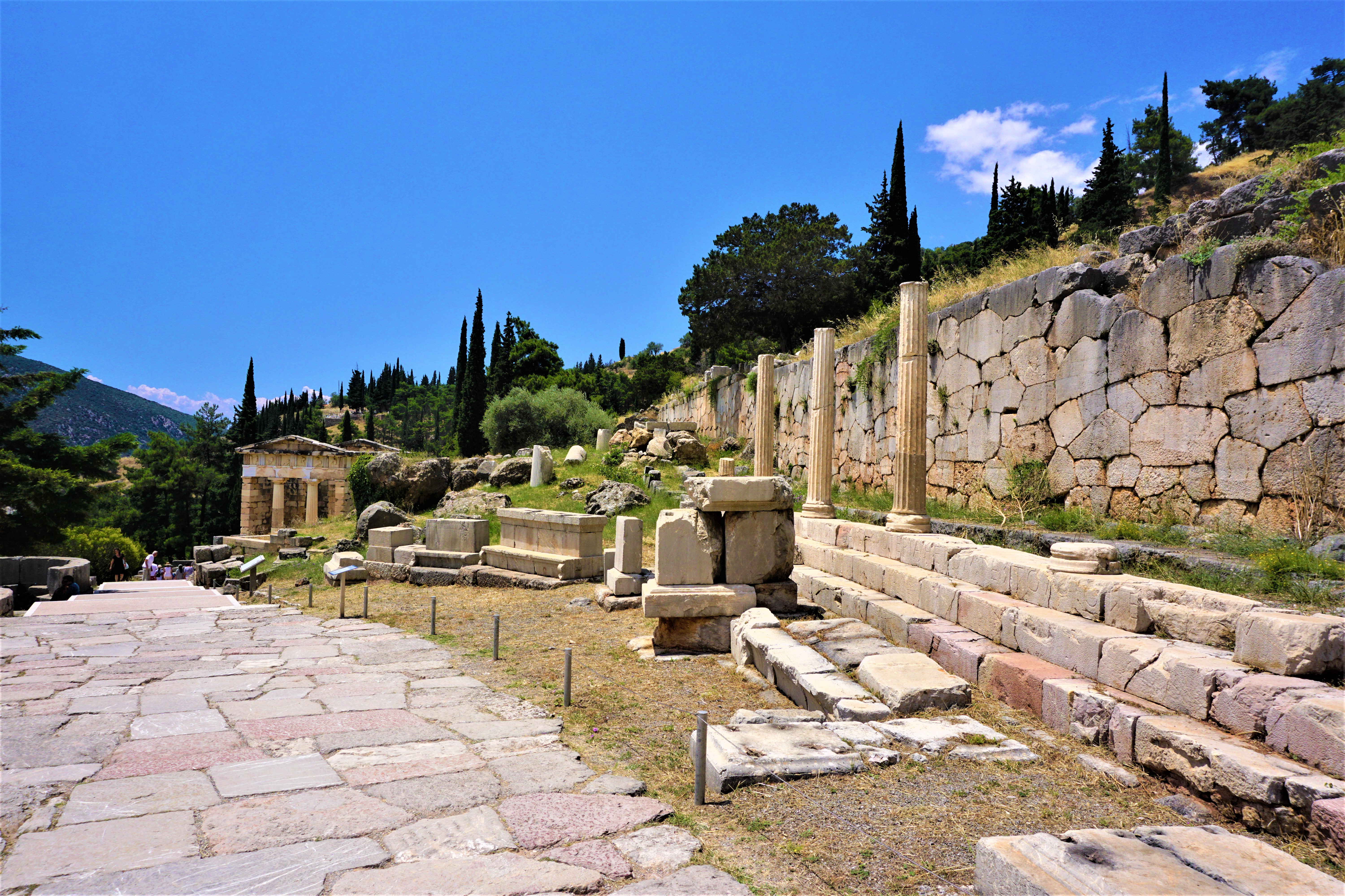 Stoa of the Athenians at Delphi by Joy of Museums, for information